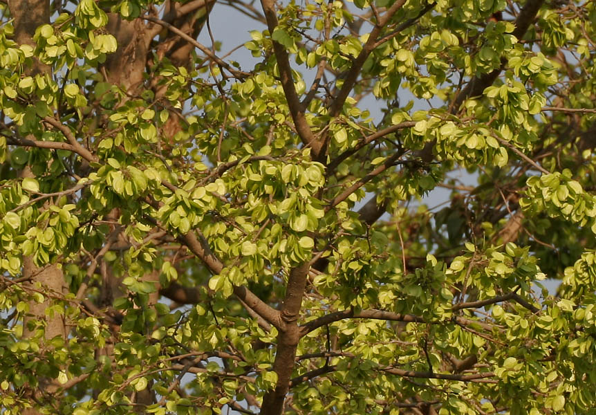 Kanju, Papdi, Karanji, Indian-elm, Waval, Wavala, Paapara, Paapari, Monekey Biscuit, Chirabilva, Papri, Banchilla, Chilbil, Dhamma, Begana, Vavli, Papara, Kanjho, Waola, Thapasi, Nemali, Pedanevilia, Aya, Ayil, Kanci, Vellaya, Thavasai, Rasbija, Kaladri, Nilavahi, Aval, Dauranja, Turuda, Rajain, Khulen, Arjan, Papar, Karanji, Chirol or Karanjalam Holoptelea integrifolia in Kinnerasani Wildlife Sanctuary, Andhra Pradesh, India.